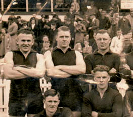 An image of Bob Pratt while at Coburg Football Club This image shows a photograph of Bob Pratt, taken in 1941. Under Australian law, all photographs taken in Australia before 1955 are in the public domain. This image is in the public domain under both Australian copyright law and US copyright law. Accessed from